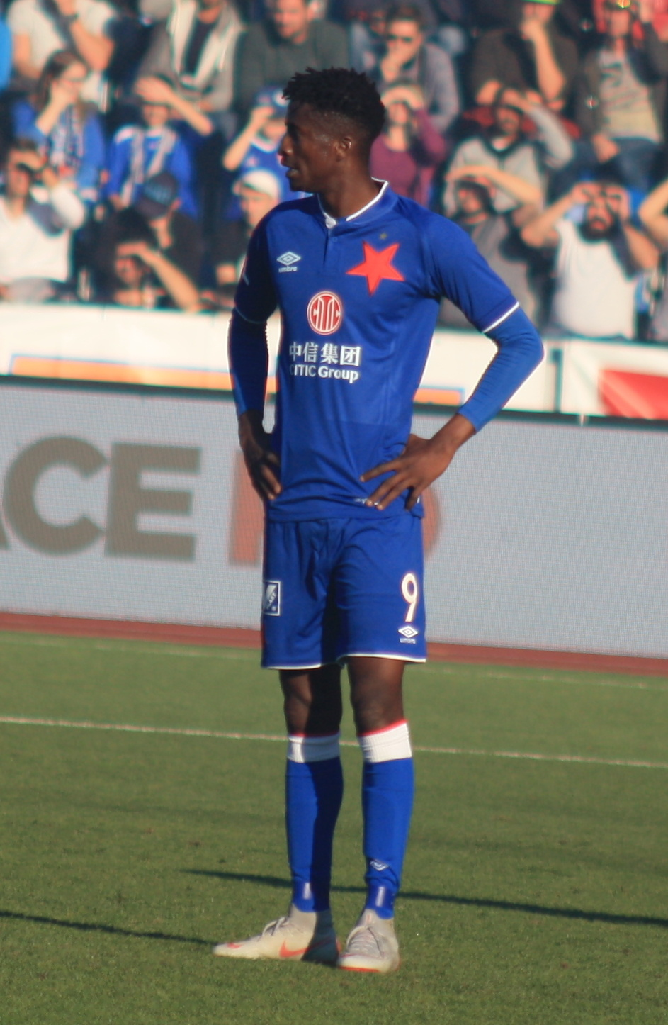 Peter Olayinka At Czech First League (Fortuna Liga) match FC Baník Ostrava-SK Slavia Praha played on 30. 9. 2018